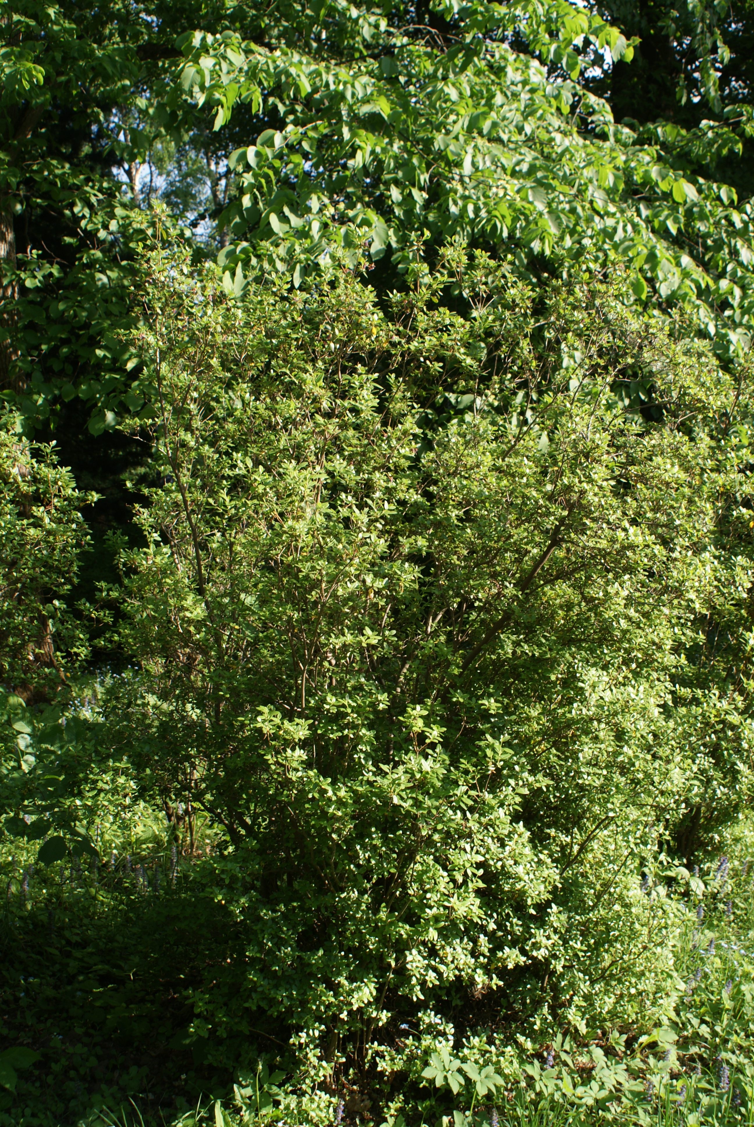 Rhododendron ledebourii in Botanical garden, Minsk